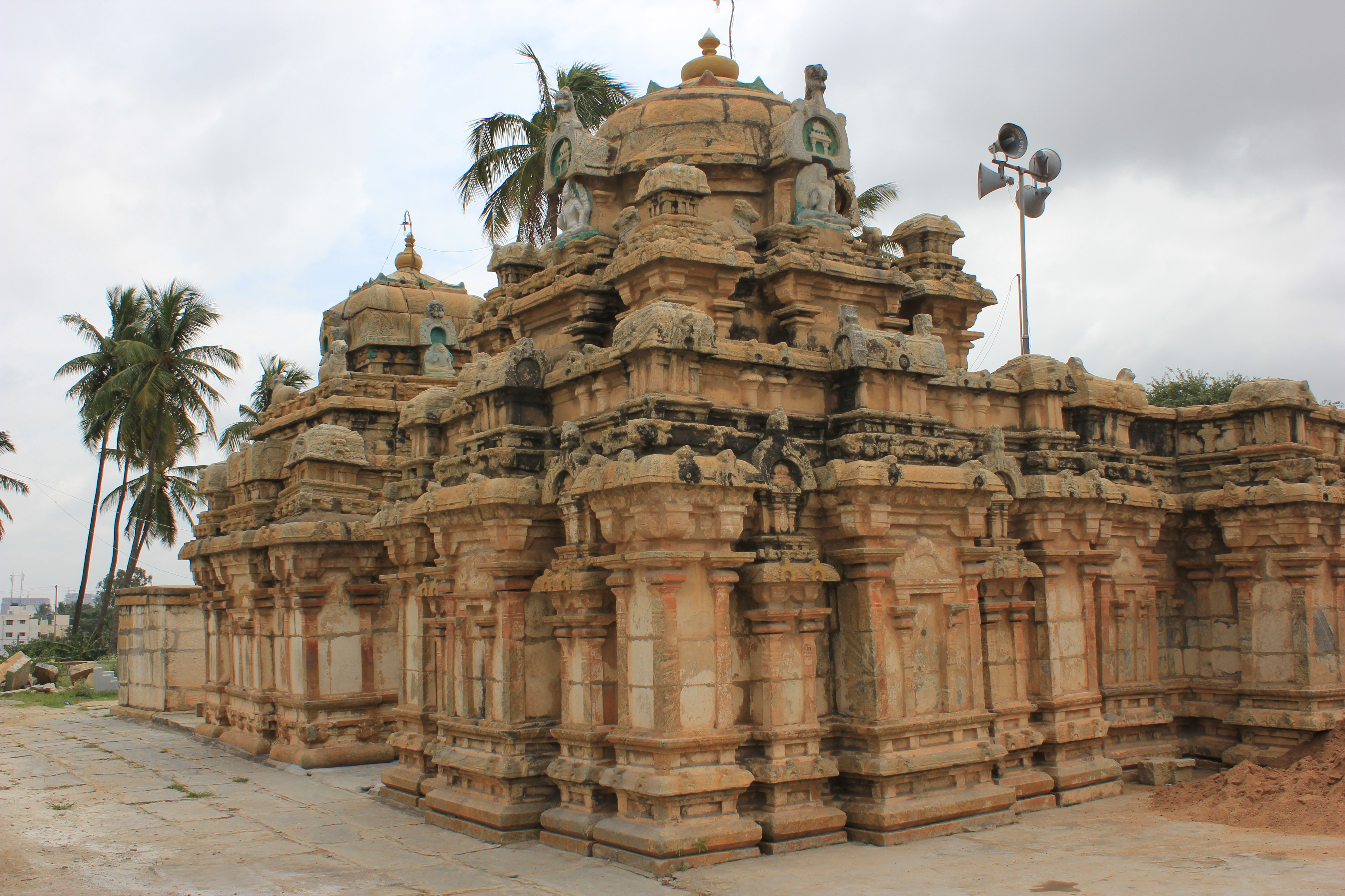 This photograph was taken by me at the Naganatheshvara (or Naganatheshwara) temple in Begur, a suburb of Bengaluru city (Bangalore) in Karnataka state, India. The complex contains multiple shrines and these show architectural features of the Western Ganga Dynasty of Talakad and later additions by the Chola Dynasty.